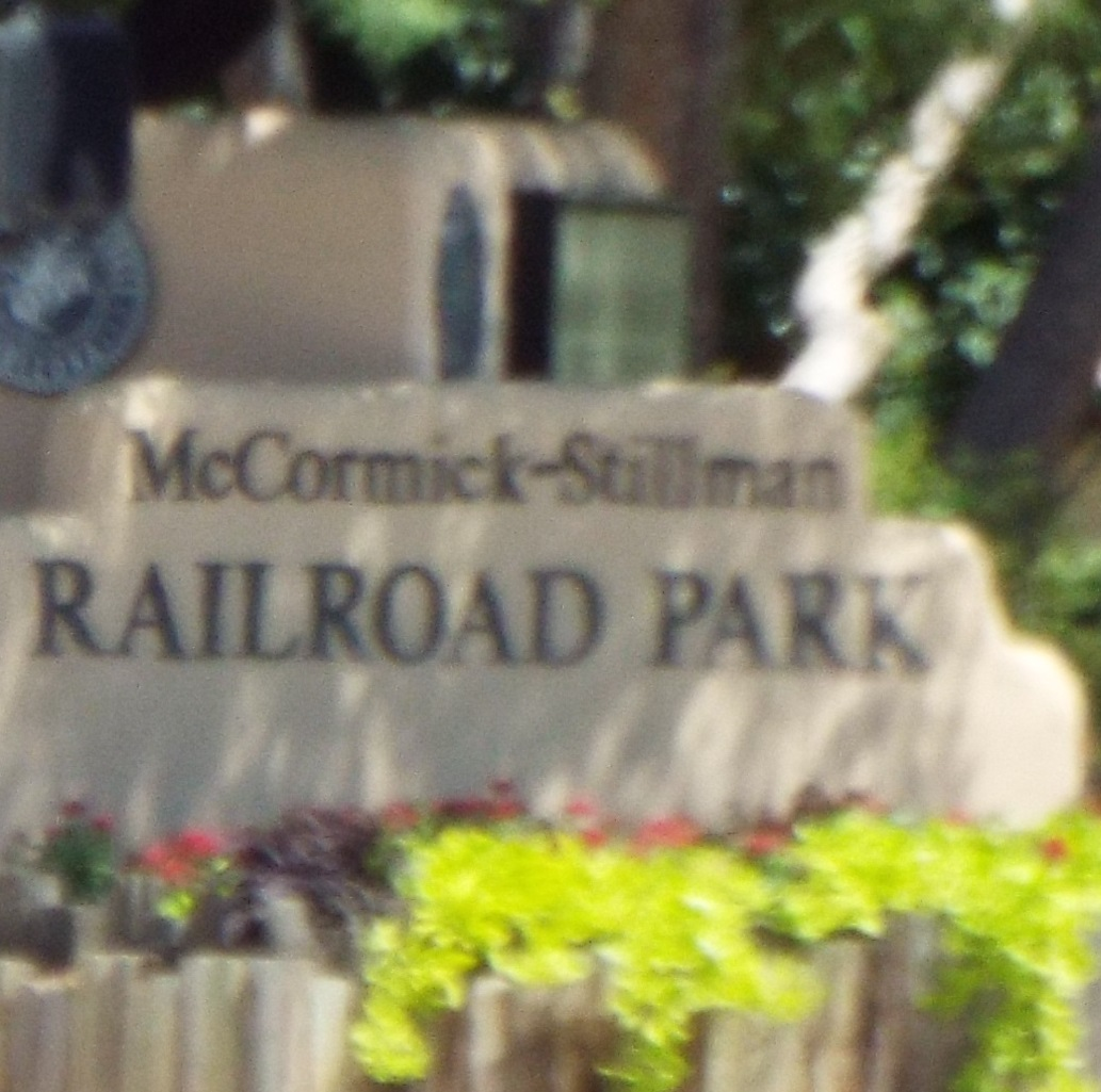 The entrance to the McCormick-Stillman Railroad park in Scottsdale, Az